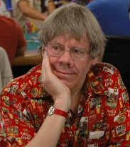 Paul Magriel at the 2005 World Series of Poker